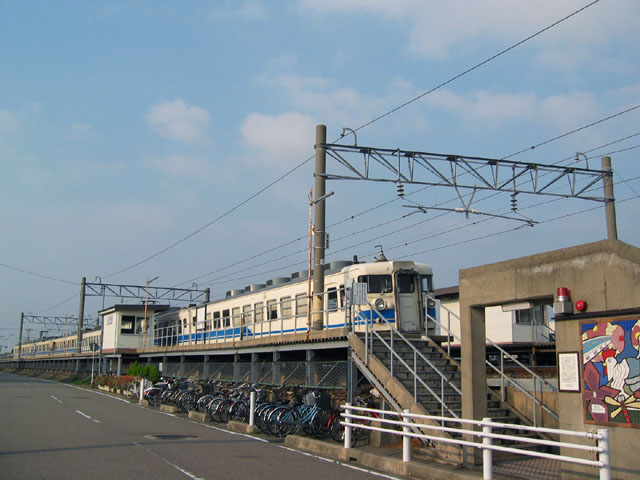 Meihō Station on the JR West Hokuriku Main Line, in the city of Komatsu, Ishikawa Prefecture, Japan